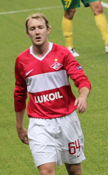 Aiden McGeady